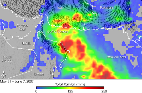 Despite weakening from a Category 5 to a Category 1 cyclone as it neared the Arabian Peninsula, Tropical Cyclone Gonu was responsible for at least 28 fatalities in the region, mostly as a result of flooding, said news reports. In Oman’s capital city of Muscat, torrential rains turned streets into rivers of water in this normally arid region. In addition to the 25 confirmed fatalities in Oman, at least 26 other people were reported missing. Iran had reported 3 deaths as a result of the storm as of June 7, 2007. This visualization shows rainfall totals from May 31 through June 7, 2007, from the Multi-satellite Precipitation Analysis (MPA). Although the center of Gonu never made landfall in Oman, it came very close to the northeast coastline where it dumped upwards up 200 millimeters of rain (8 inches, shown in dark red). The capital region of Muscat is on the coast where some of the heaviest rain fell. Despite further weakening as it traversed the Gulf of Oman between Oman and southern Iran, Gonu dumped substantial amounts of rain in southern Iran (broad green area) with locally heavy amounts. The mountainous terrain near the coast of Oman and Iran posed an additional hazard to coastal regions. Heavy rain falling on the steep mountains sent torrents of fast-moving floodwater down to the coastal areas. The MPA is computed at NASA Goddard Space Flight center in near-real time using data from the Tropical Rainfall Measuring Mission (TRMM). The TRMM satellite was placed into service in November 1997. From its low-earth orbit, TRMM provides valuable images and information on storm systems around the tropics using a combination of passive microwave and active radar sensors, including the first precipitation radar in space. TRMM is a joint mission between NASA and the Japanese space agency, JAXA.